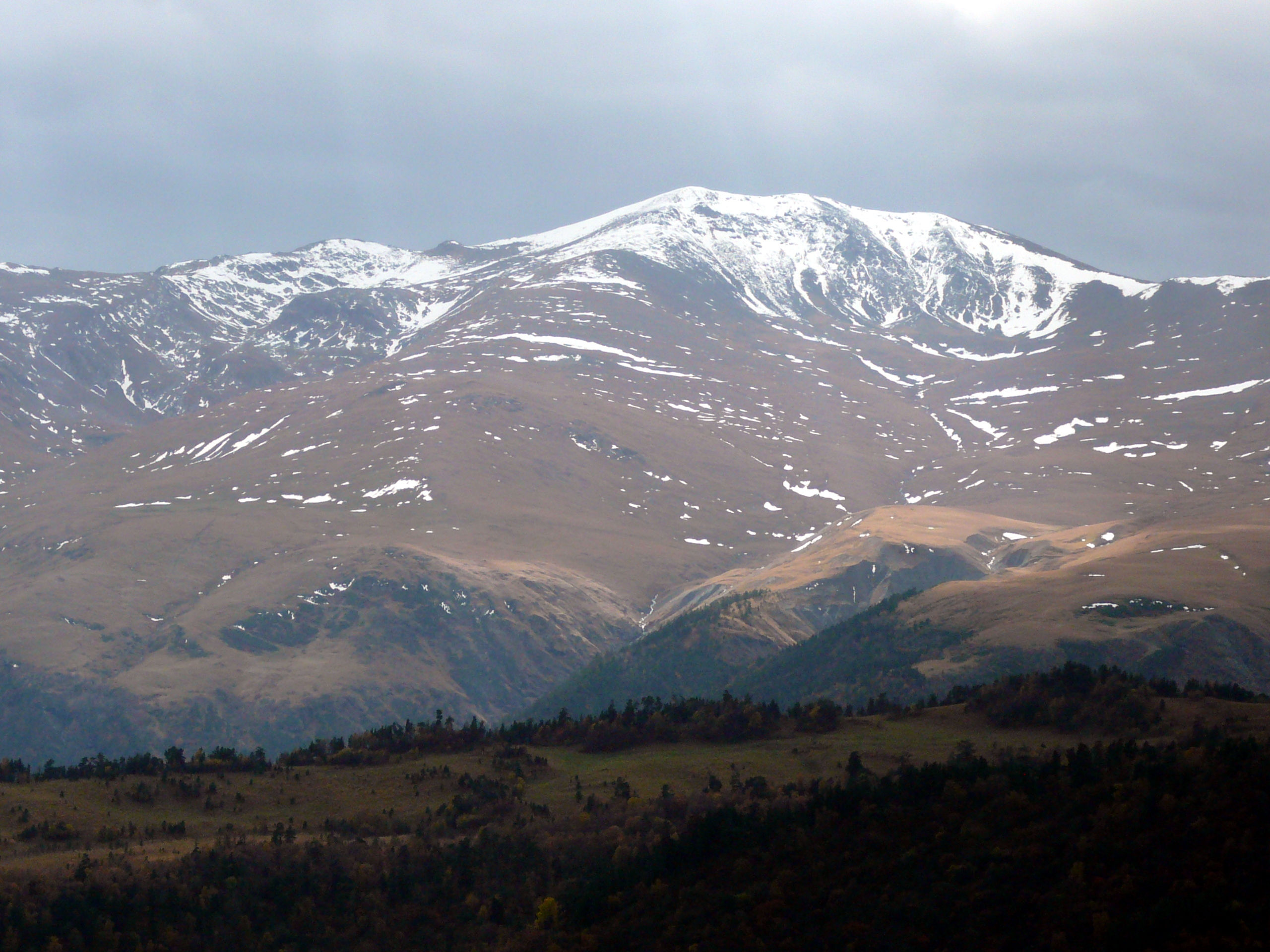 Mountains nearby Chilik river This image is related to the protected area of Russia number 0910021